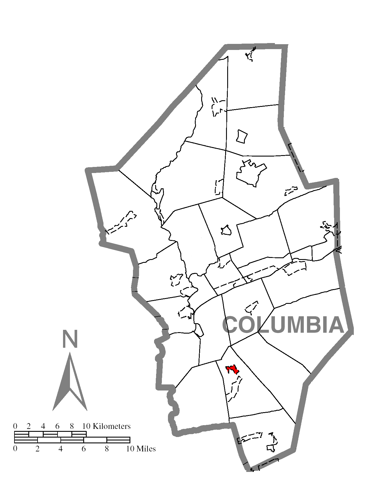 A map of Columbia County showing Slabtown, Pennsylvania (alternate) highlighted on the map.